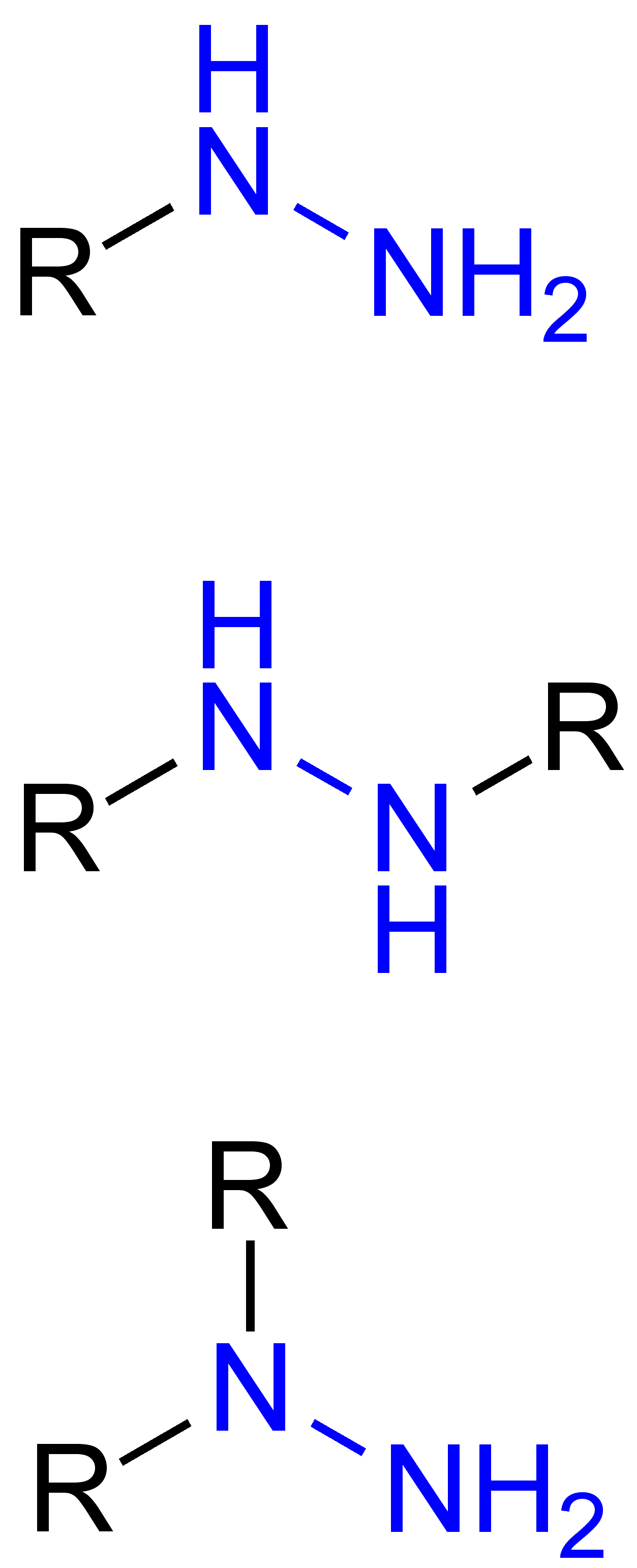 Organyl Hydrazides General Formulae